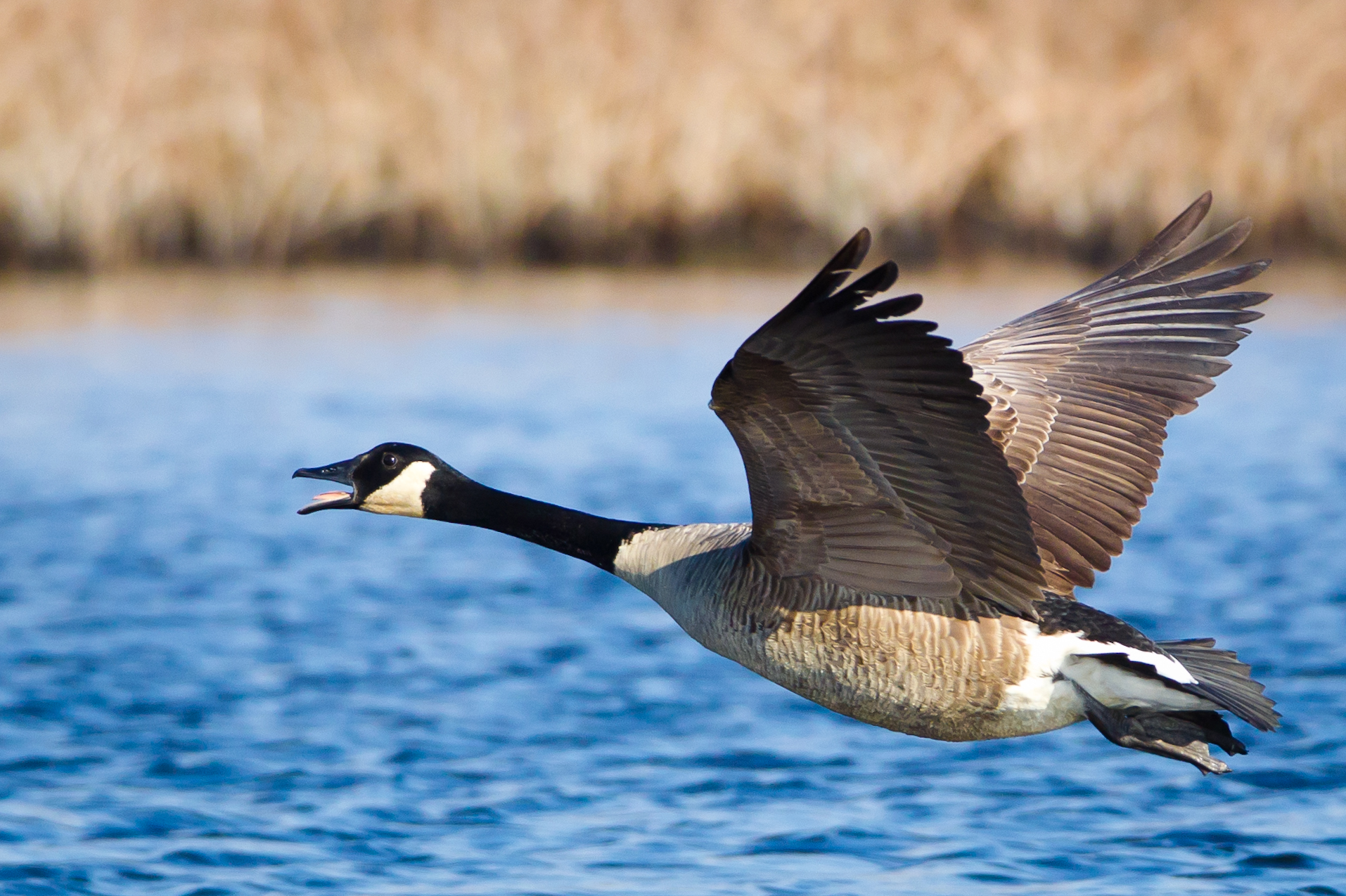 A Canada Goose flying near Oceanville, New Jersey, USA.